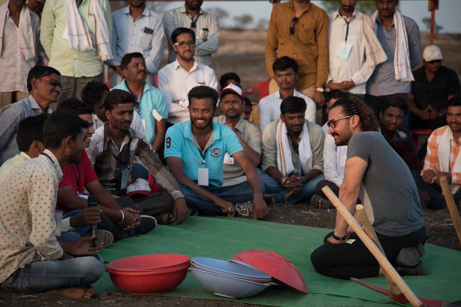 Aamir Khan and Kiran Rao have been travelling across villages in Maharashtra, interacting with partipants of the Satyamev Jayate Water Cup.